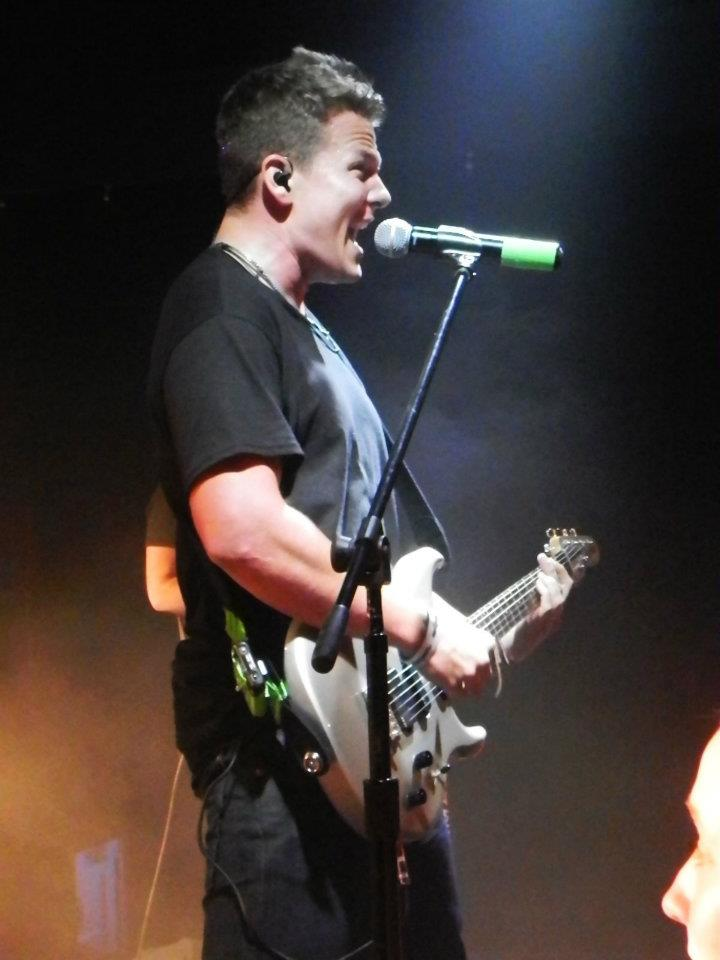 Taken live in Dallas TX in October of 2011 at House Of Blues